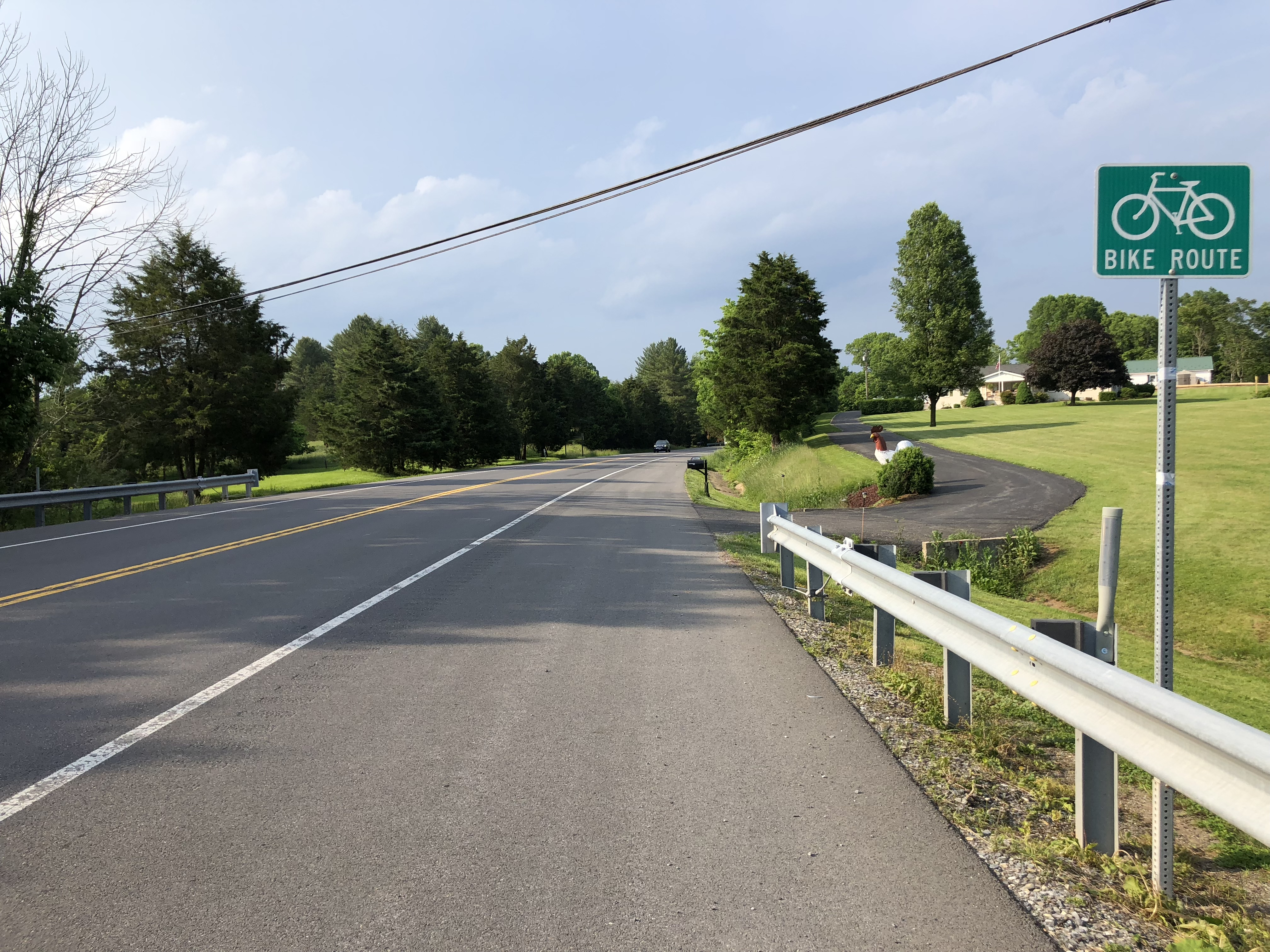 View east along Maryland State Route 34 (Shepherdstown Pike) at Maryland State Route 845 (South Main Street) in Keedysville, Washington County, Maryland